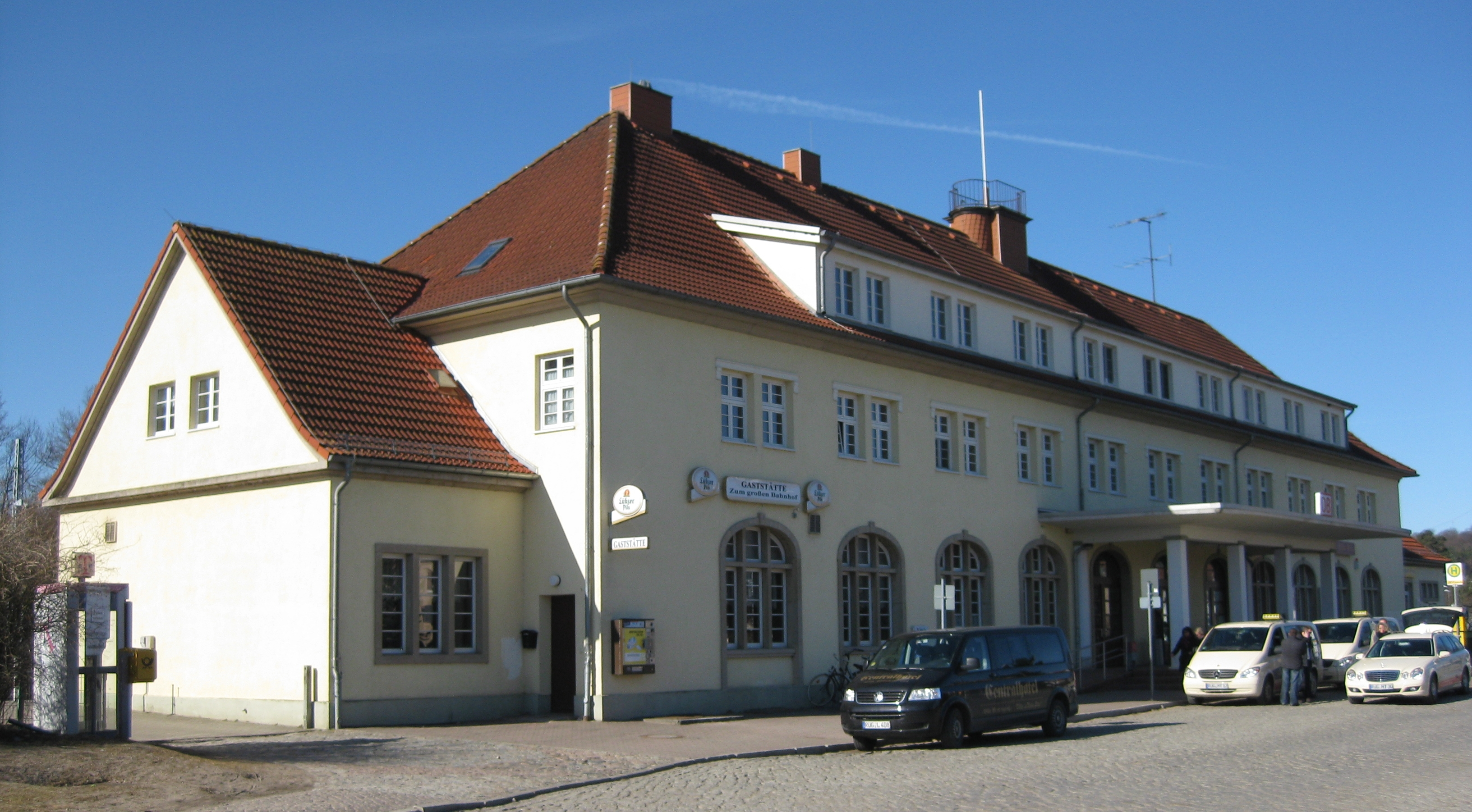 Germany, Mecklenburg-Vorpommern, Rügen Island, Binz: reception building of the Baltic Sea station Binz